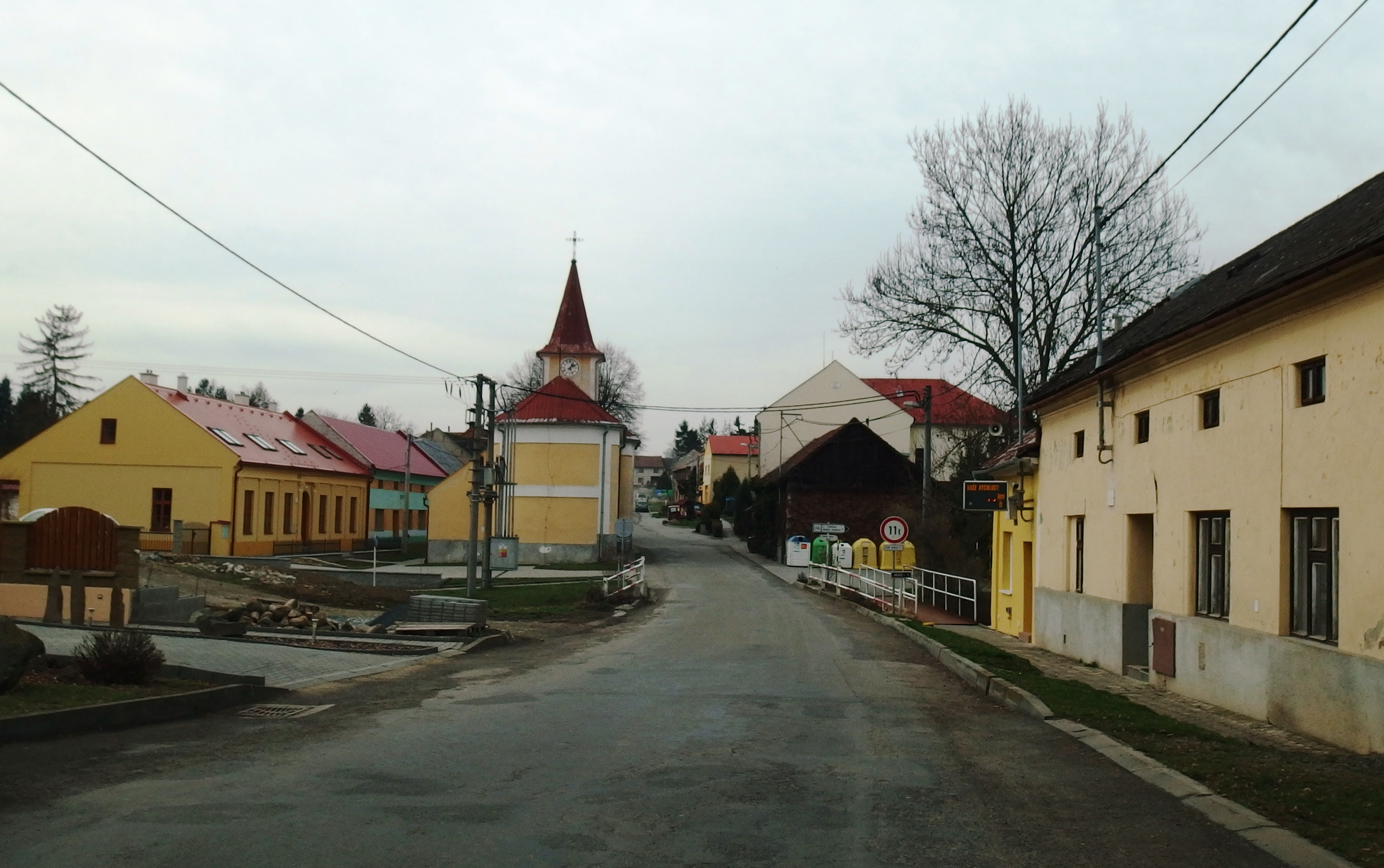 Prasklice, Kroměříž District, Czech Republic.